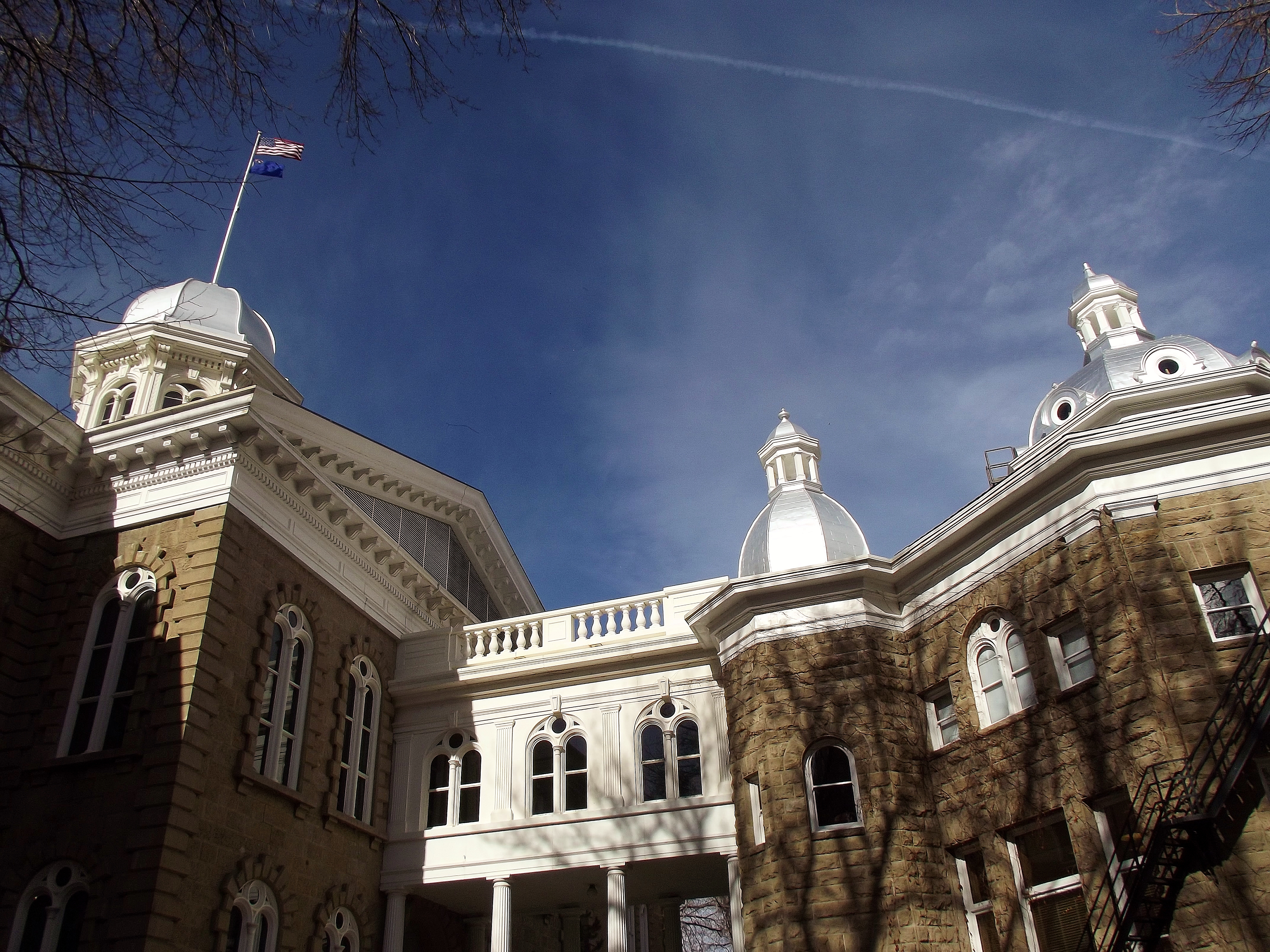 Octagonal annex aded to the back of the Nevada State Capitol